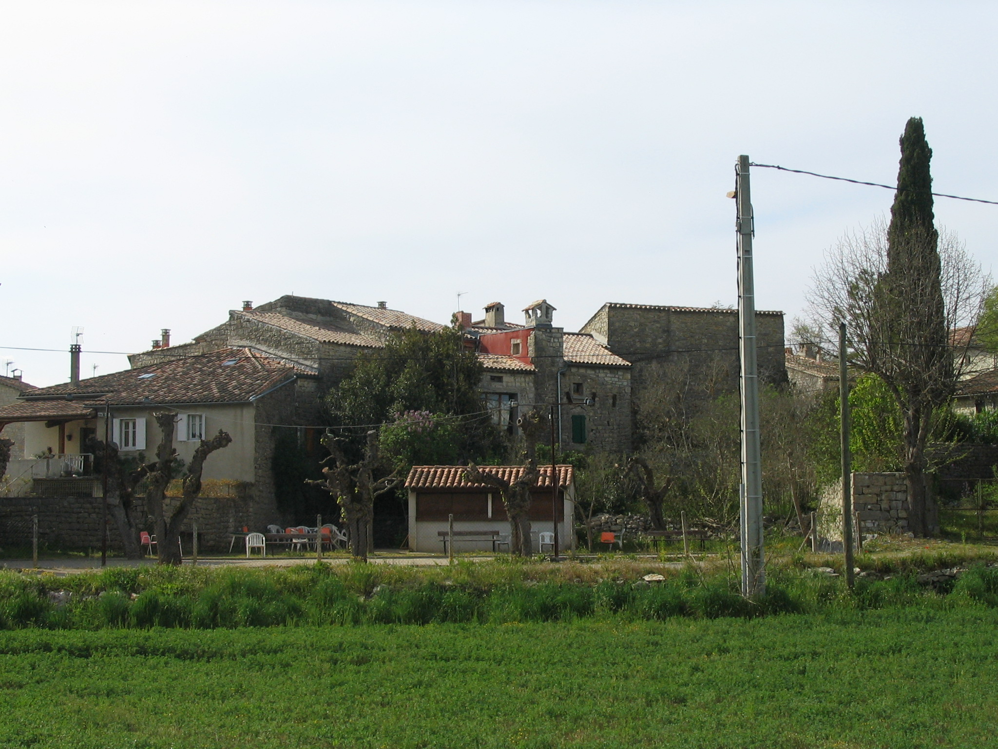 Village Chandolas in the Chassezac valley, Ardèche region, France